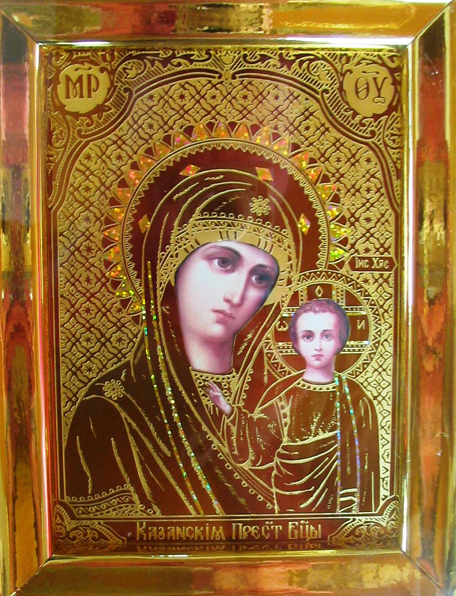 Icon of God´s Mother of Kazan (this particular icon was bought in the monastery of Pochayiv in Ukraine)